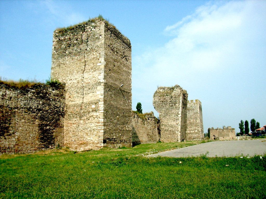 Smederevo in Serbia, southern walls of the fort